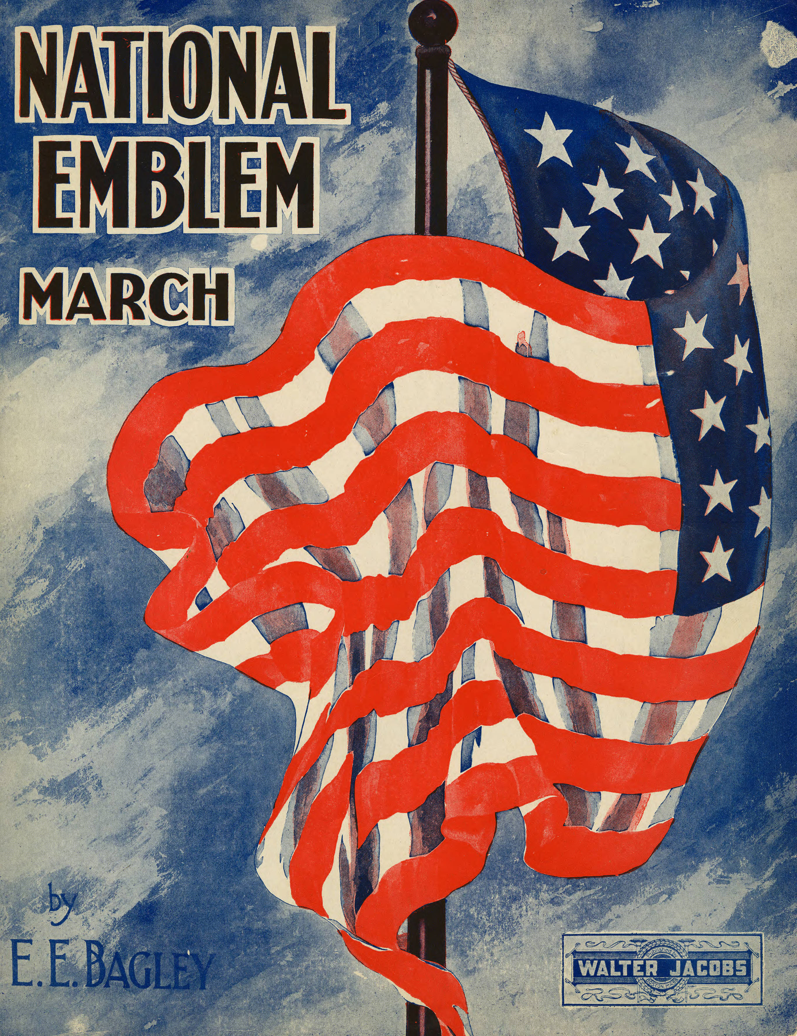 The cover of the sheet music of "National Emblem", by Edwin Eugene Bagley, as published by Walter Jacobs.